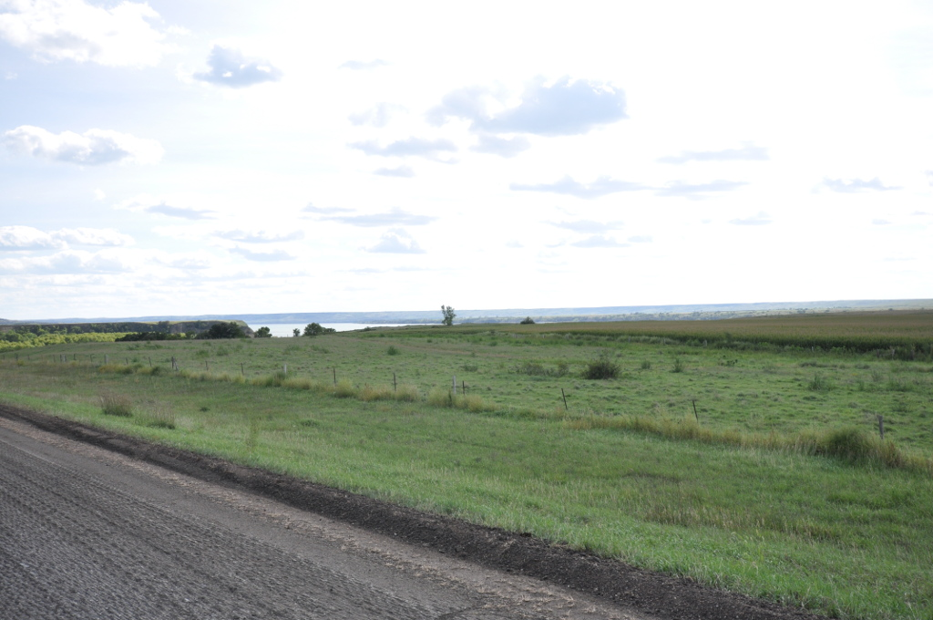 Crow Creek Site, Buffalo County, South Dakota.